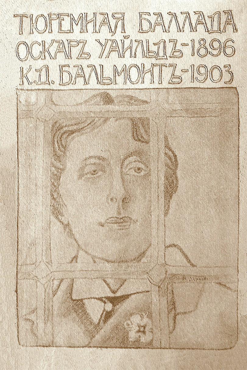 Cover of "The Ballad of Reading Gaol"